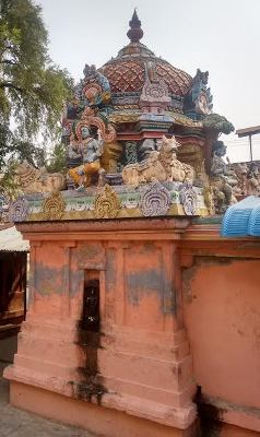 Thanjavur meenakshi sundaresvarar temple தஞ்சாவூர் மீனாட்சிசுந்தரேஸ்வரர் கோயில்